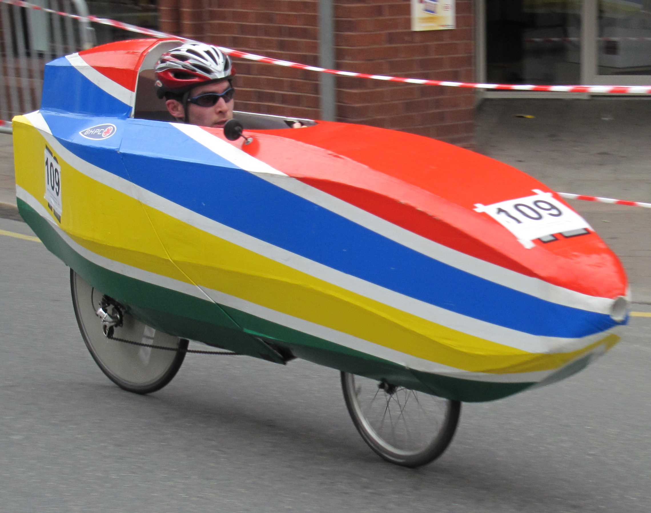 Jersey Town Criterium recumbent bicycle races, Saint Helier, Jersey - World Human Powered Vehicle Association 2010 World Championship